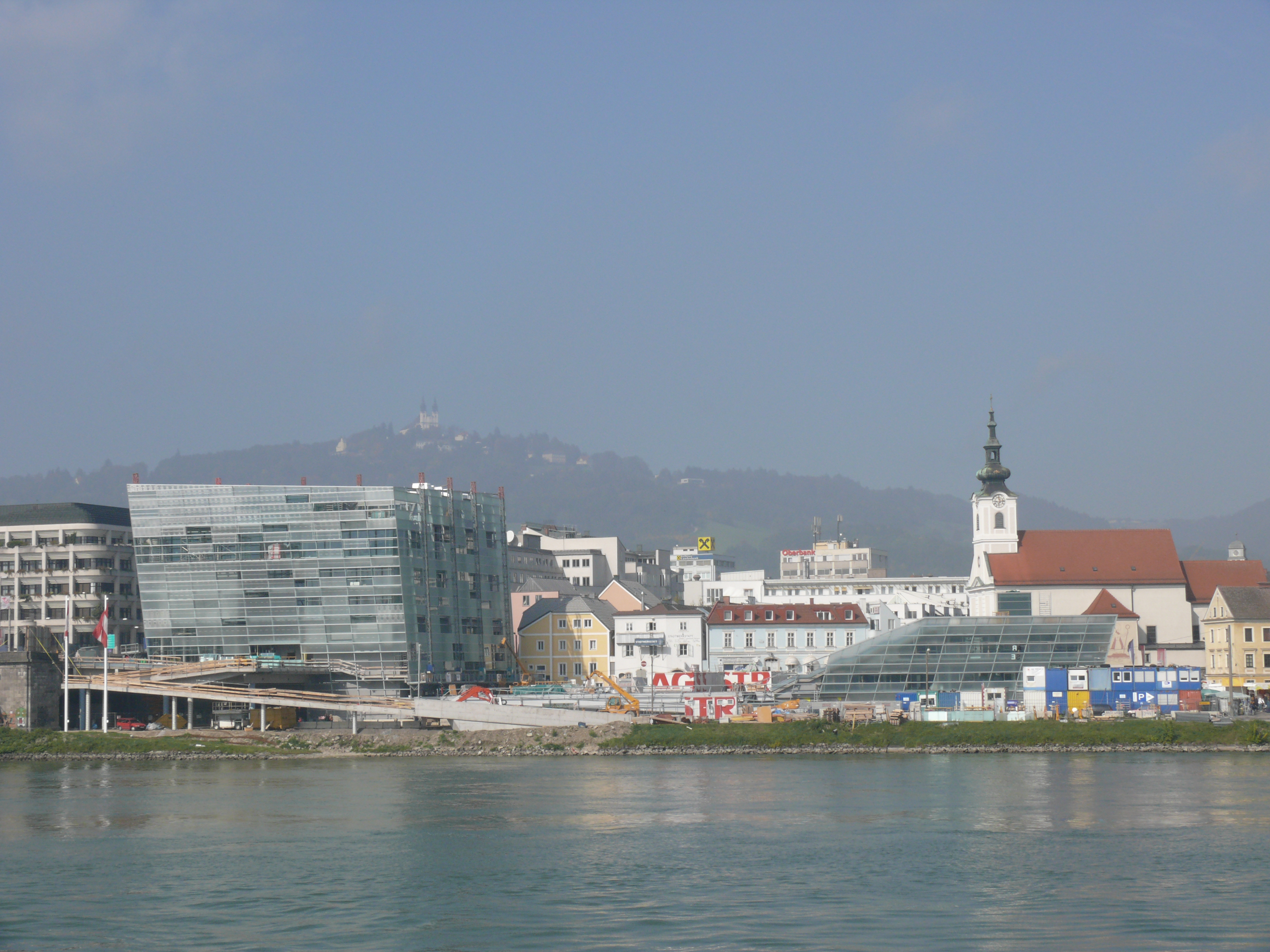 Ars Electronica new building